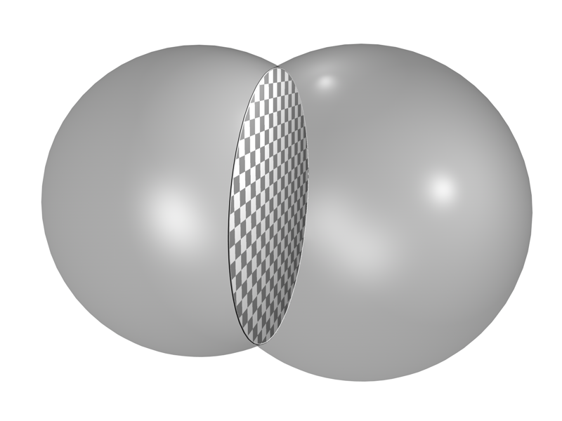 Designed by Michael Tsirelson, for Wikipedia